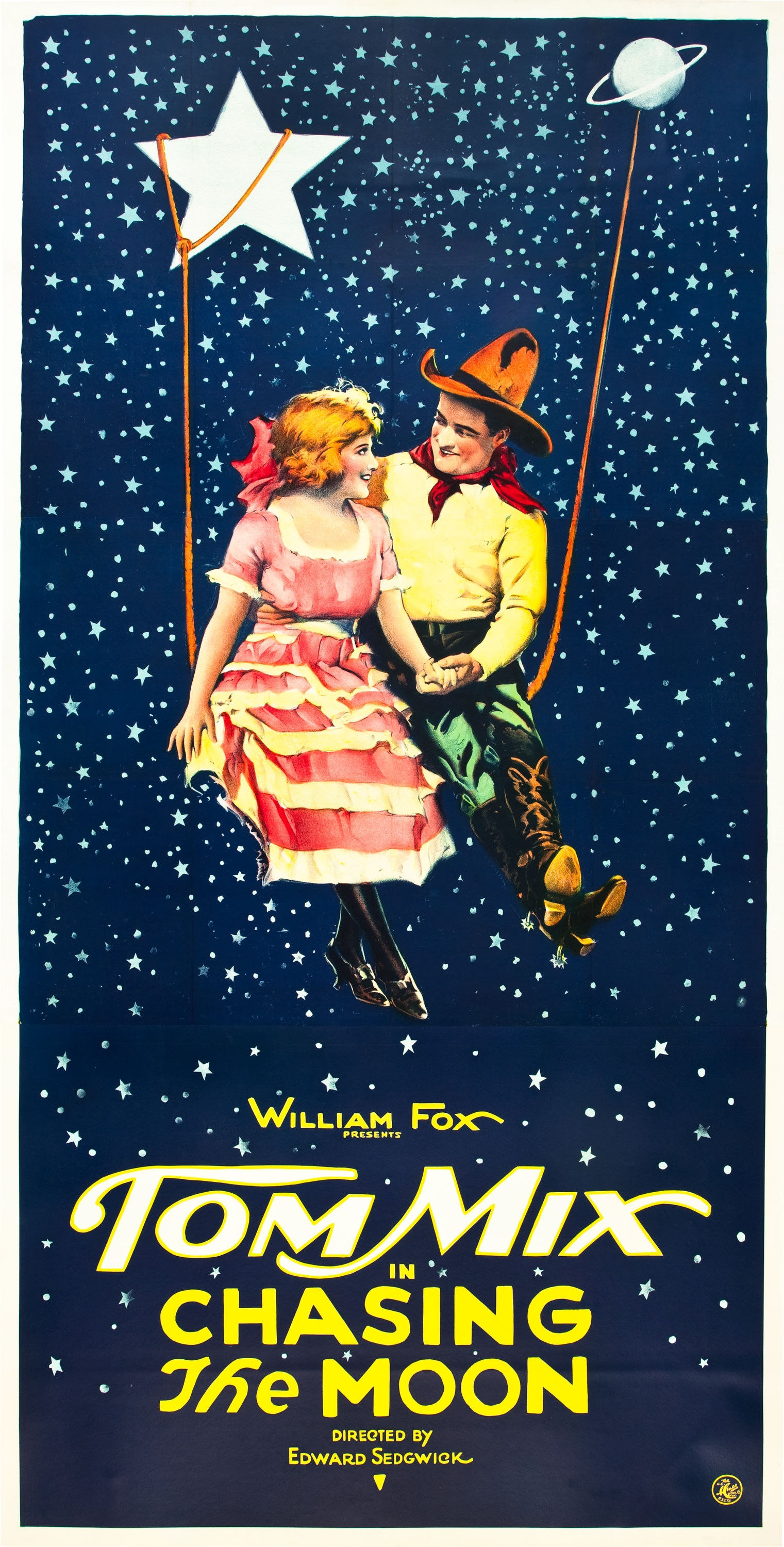 Movie poster for the American drama film Chasing the Moon (1922).